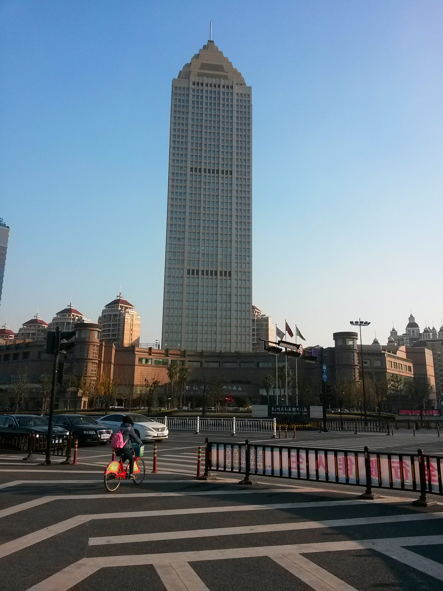 Xiaoshan Kaiyuan Grand Hotel